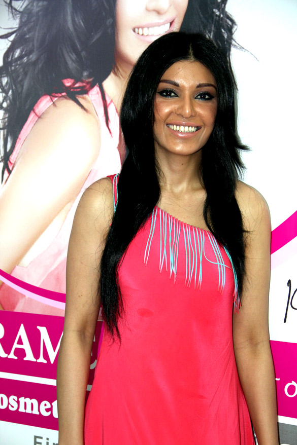 Koena mitra look young launch